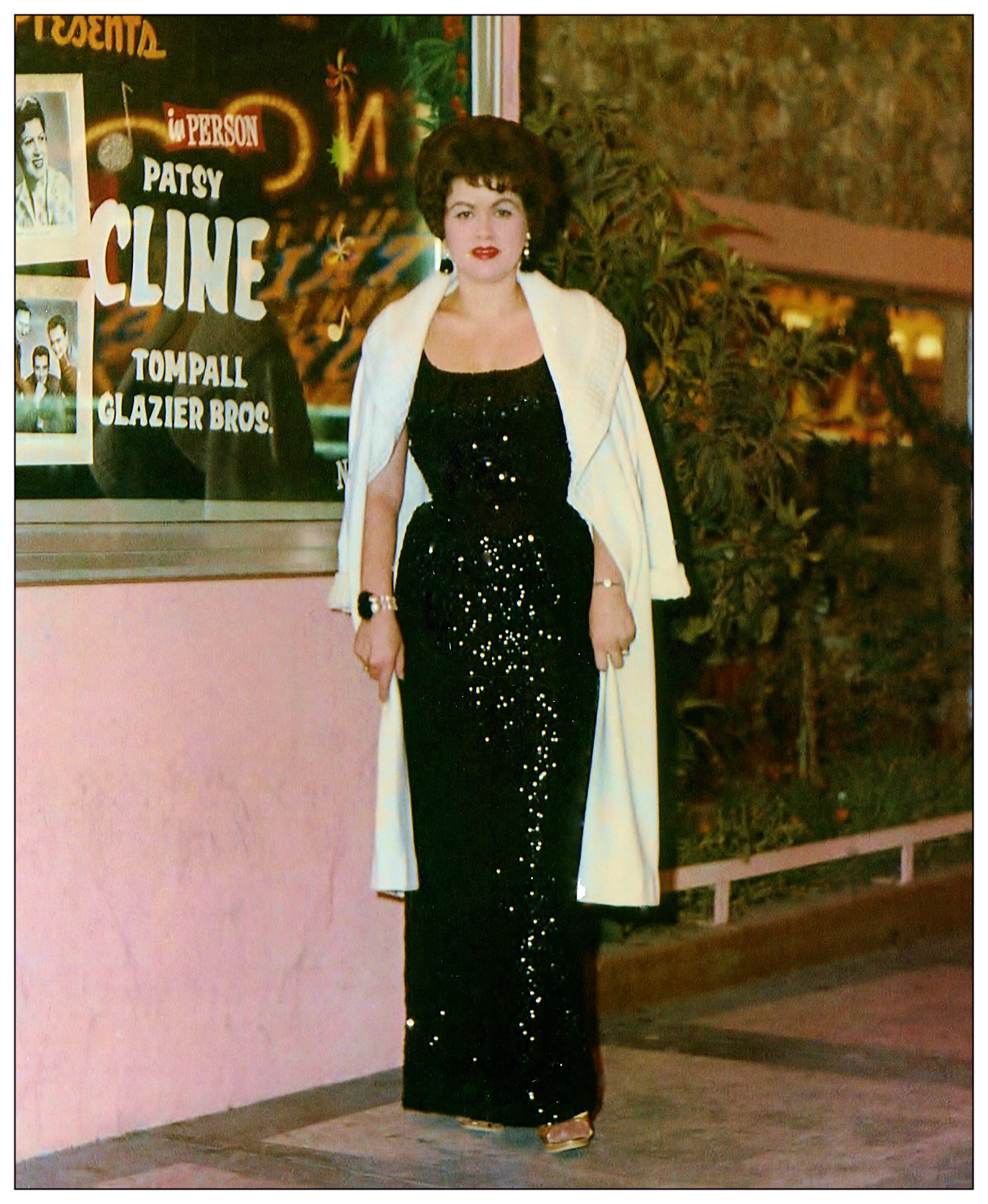 Country Pop singer Patsy Cline performed at the The Mint Las Vegas in Downtown Las Vegas during November and December 1962. She was the first major country singer to perform in Vegas. She received great reviews at her shows. A return trip in early 1963 was in the works, however, Patsy was killed in a private plane crash in March 1963. Today the Mint casino site is Binion's Gambling Hall and Hotel.